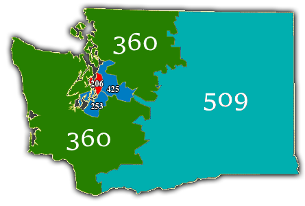 Area code 206 of Washington state.